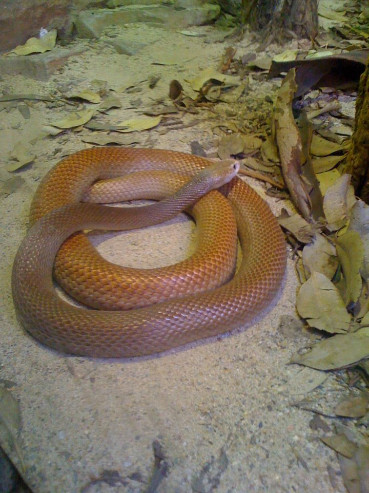 A coastal taipan at the Taronga Zoo in Sydney, Australia.